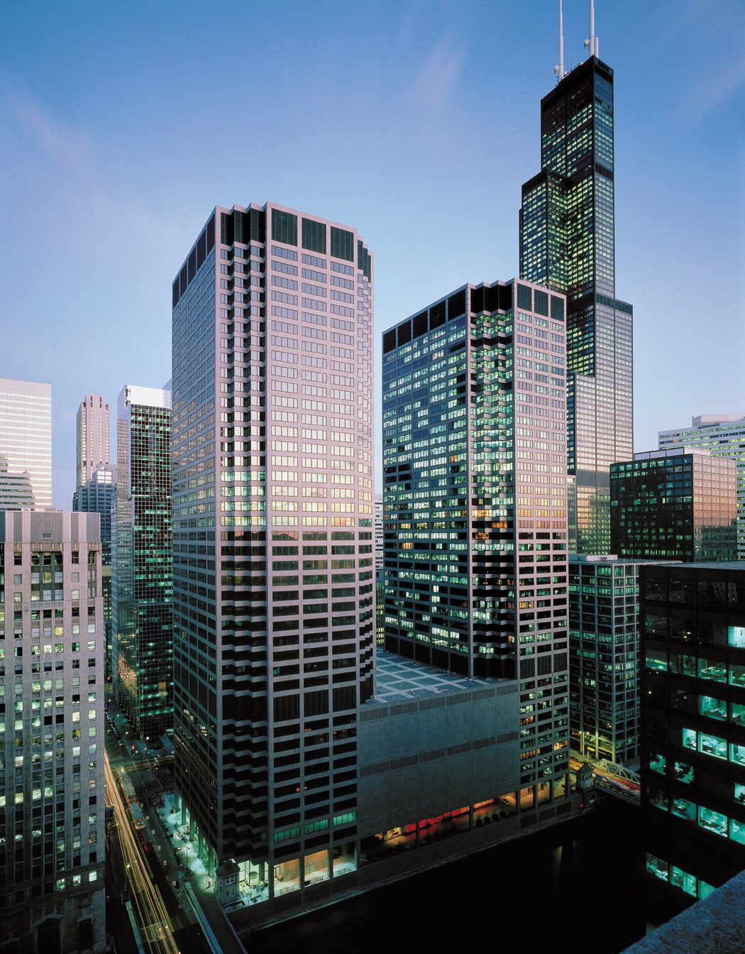 Chicago Mercantile Exchange building 20 S. Wacker Dr